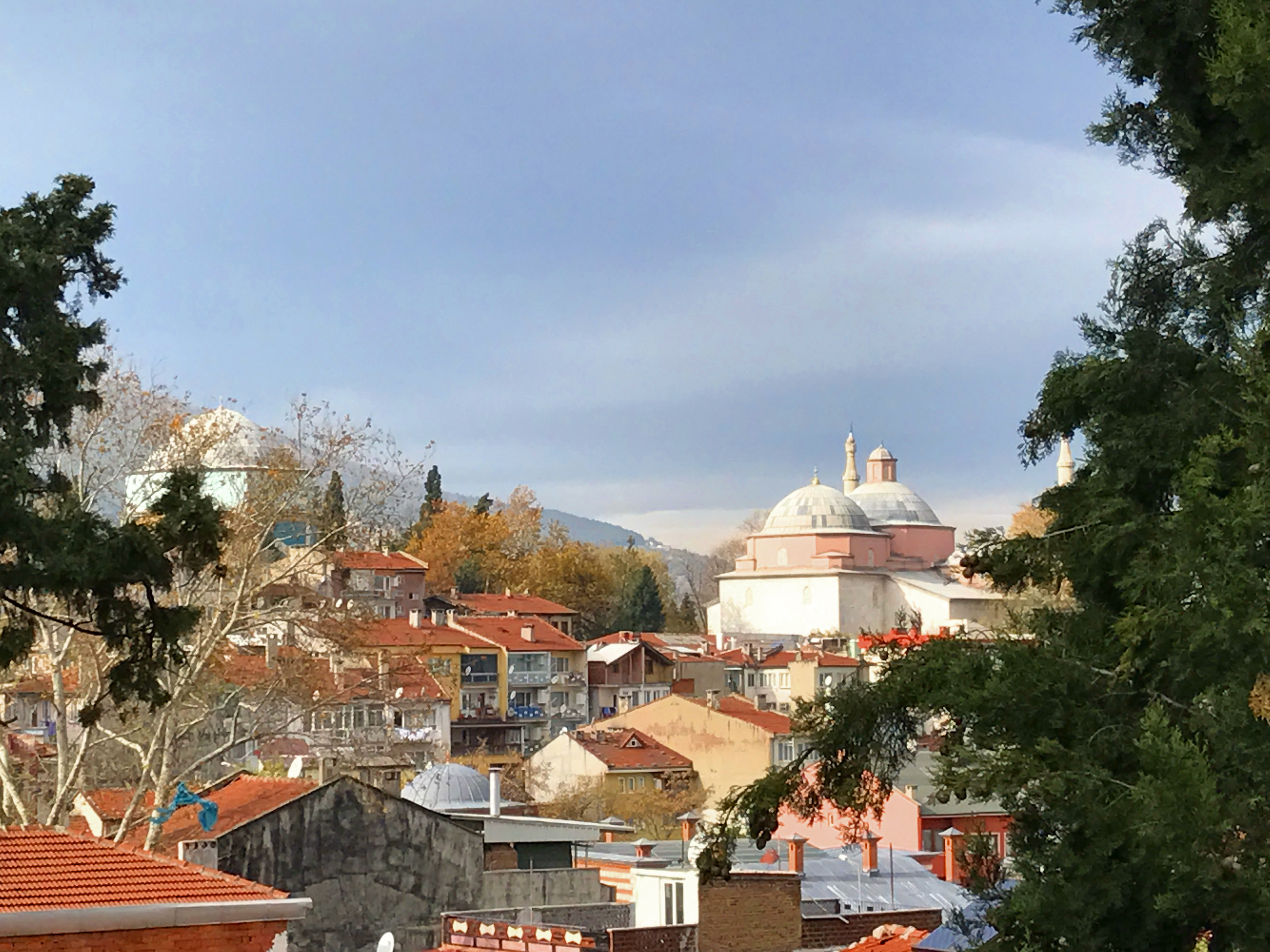 Green Mosque of Bursa, Turkey, 2017. Green Mosque (Turkish: Yeşil Camii, "Yeşil Mosque"), also known as Mosque of Sultan Mehmed I, is a part of the larger complex (a külliye) located on the east side of Bursa, Turkey, the former capital of the Ottoman Turks before they captured Constantinople in 1453. The complex consists of a mosque, türbe, madrasah, kitchen and bath.